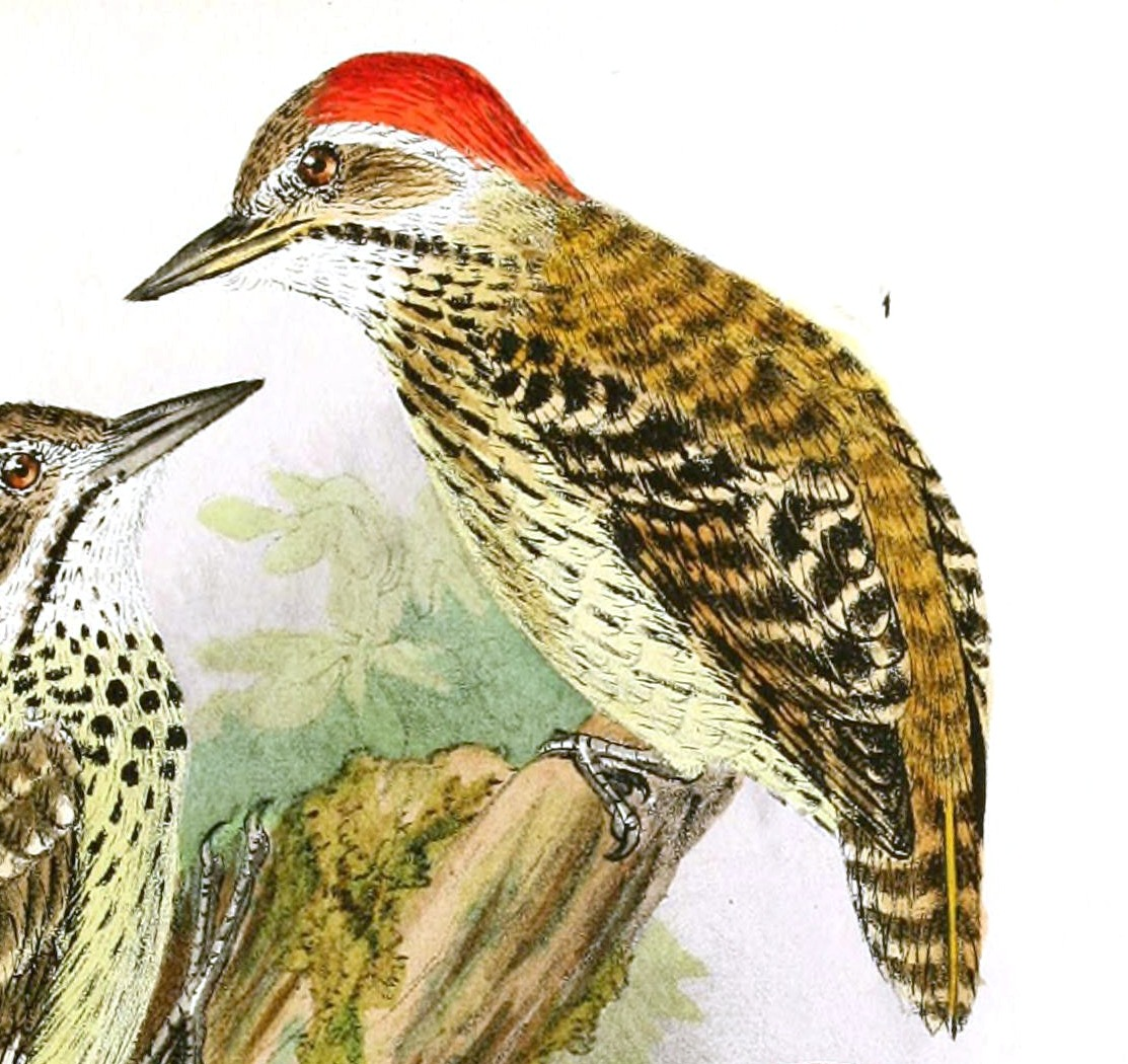 A male Cardinal woodpecker as illustrated in Die Vögel Afrikas von Ant. Reichenow. Atlas. Neudamm, Verlag von J. Neumann, 1900-05